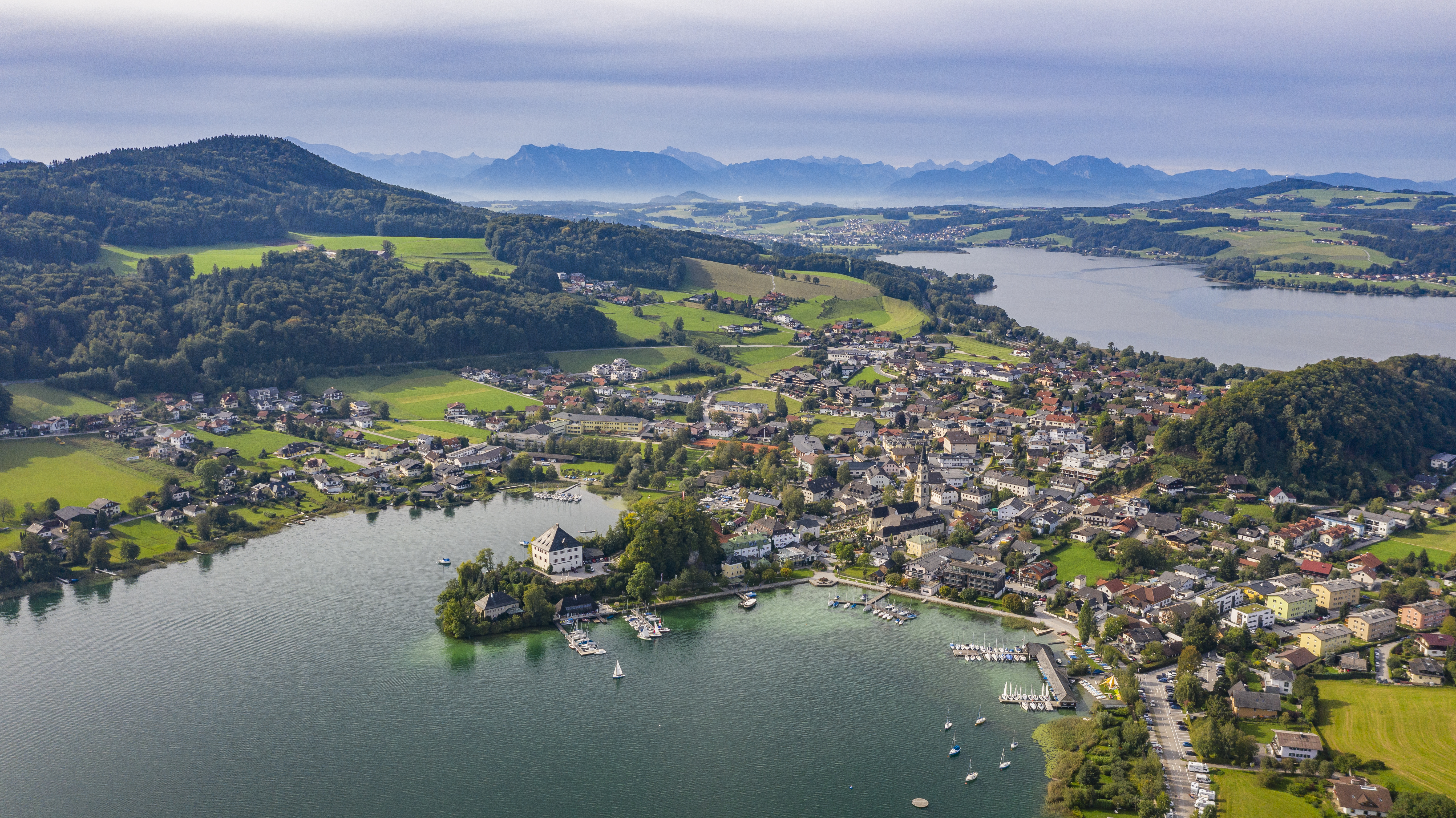 Template:Mattsee, Austria